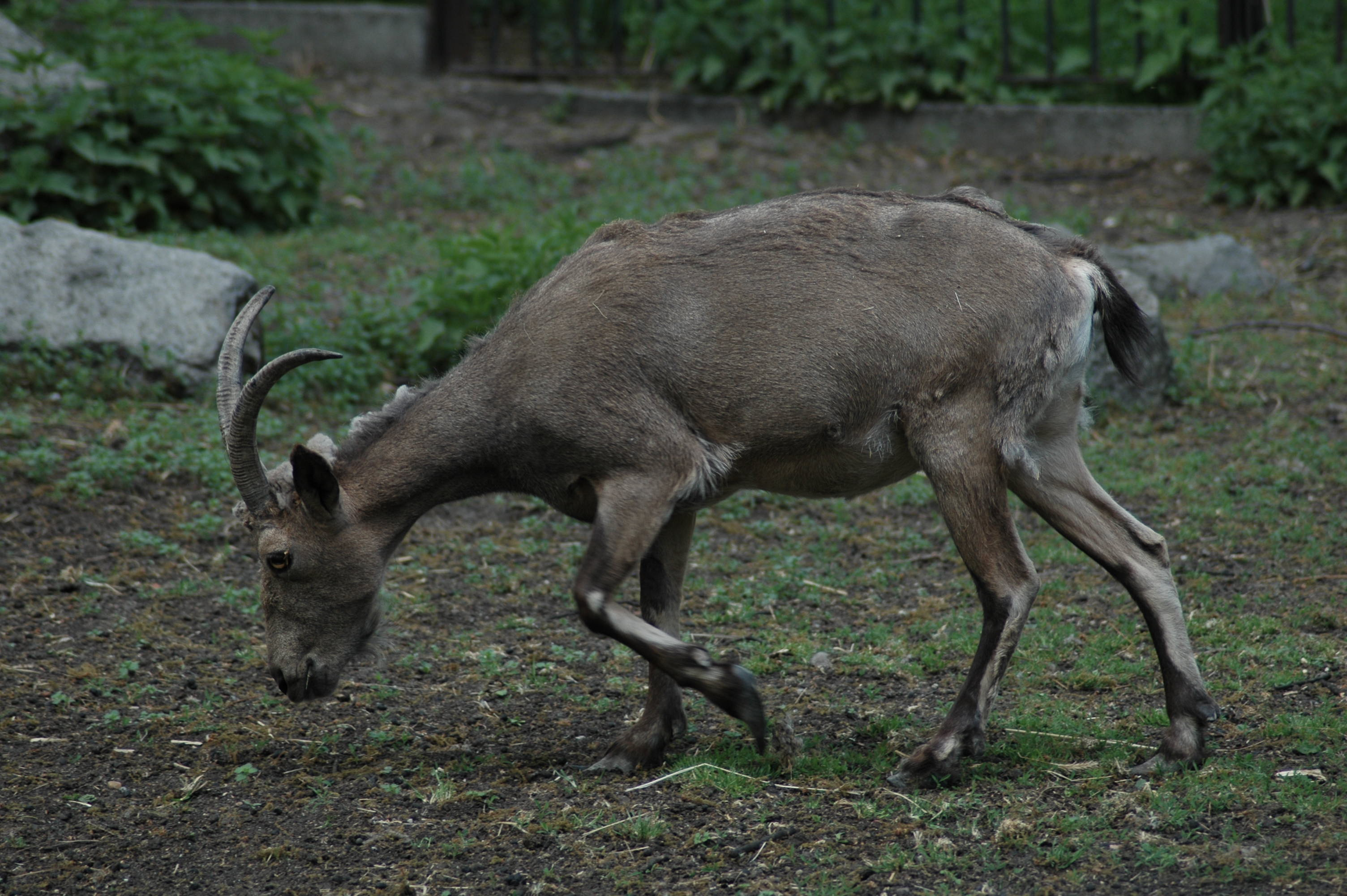 Asiatic ibex (Capra sibirica) at Poland, Wroclaw's ZOO.